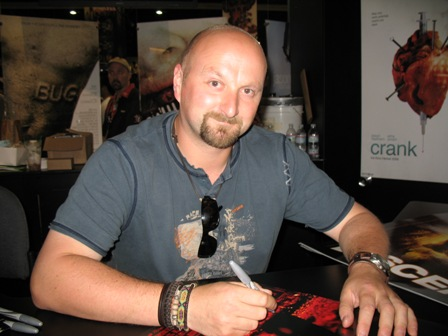 Neil Marshal at the 2006 Comic Con